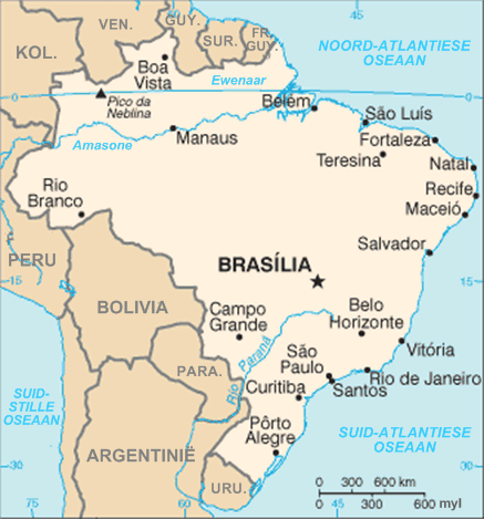 Map of Brazil in Afrikaans.